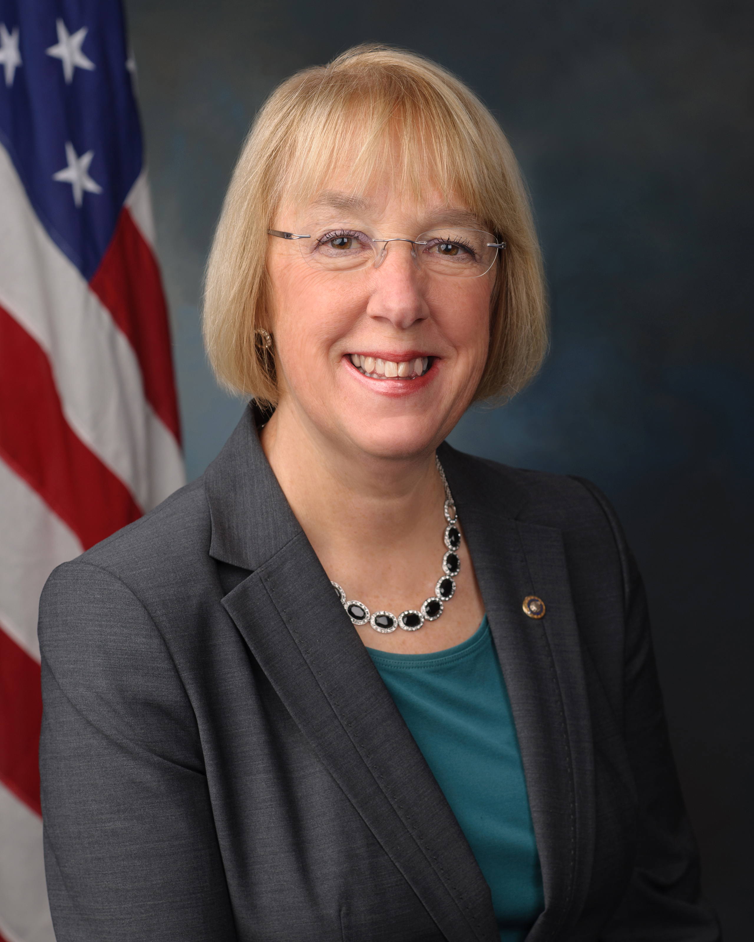 Official portrait of U.S. Senator Patty Murray (D-WA).